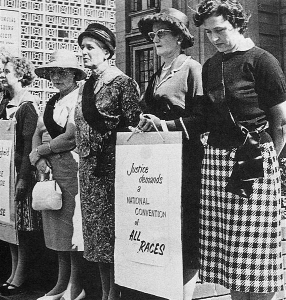 Black Sash : a non-violent white women's resistance organization founded in 1955